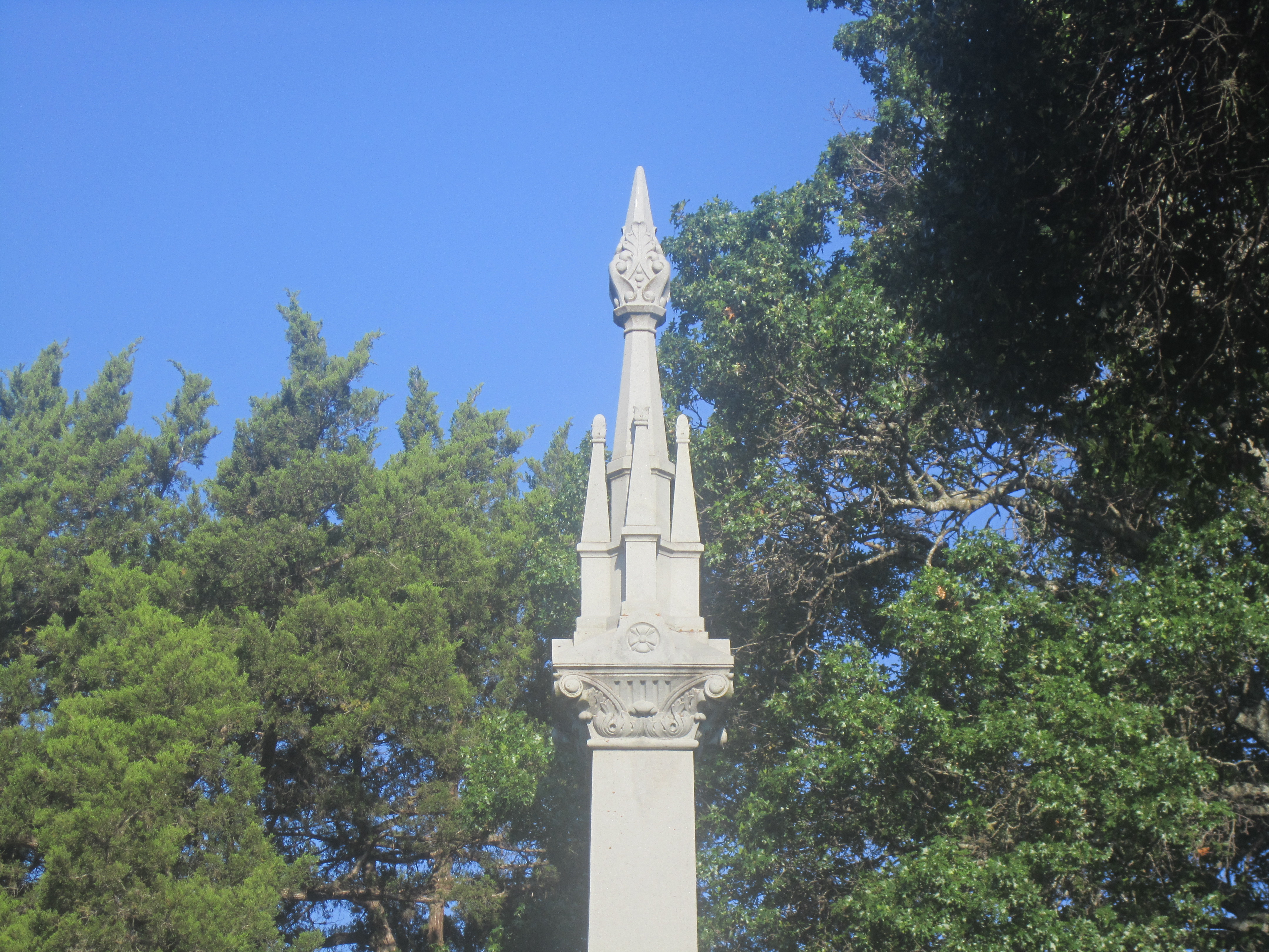 I took photo with Canon camera of upper part of Edmund Davis monument at Texas State Cemetery in Austin.